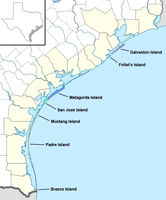 Map of the barrier islands along the Gulf Coast of Texas, with islands colored and labeled